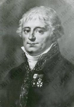 Lafontaine, Leopold de (1756-1812) / Porträt, mit polnischem militärischem Tapferkeitsorden 3. Klasse und französischem Orden Legion d'honneur 4. Klasse, Brustbild in Medaillon